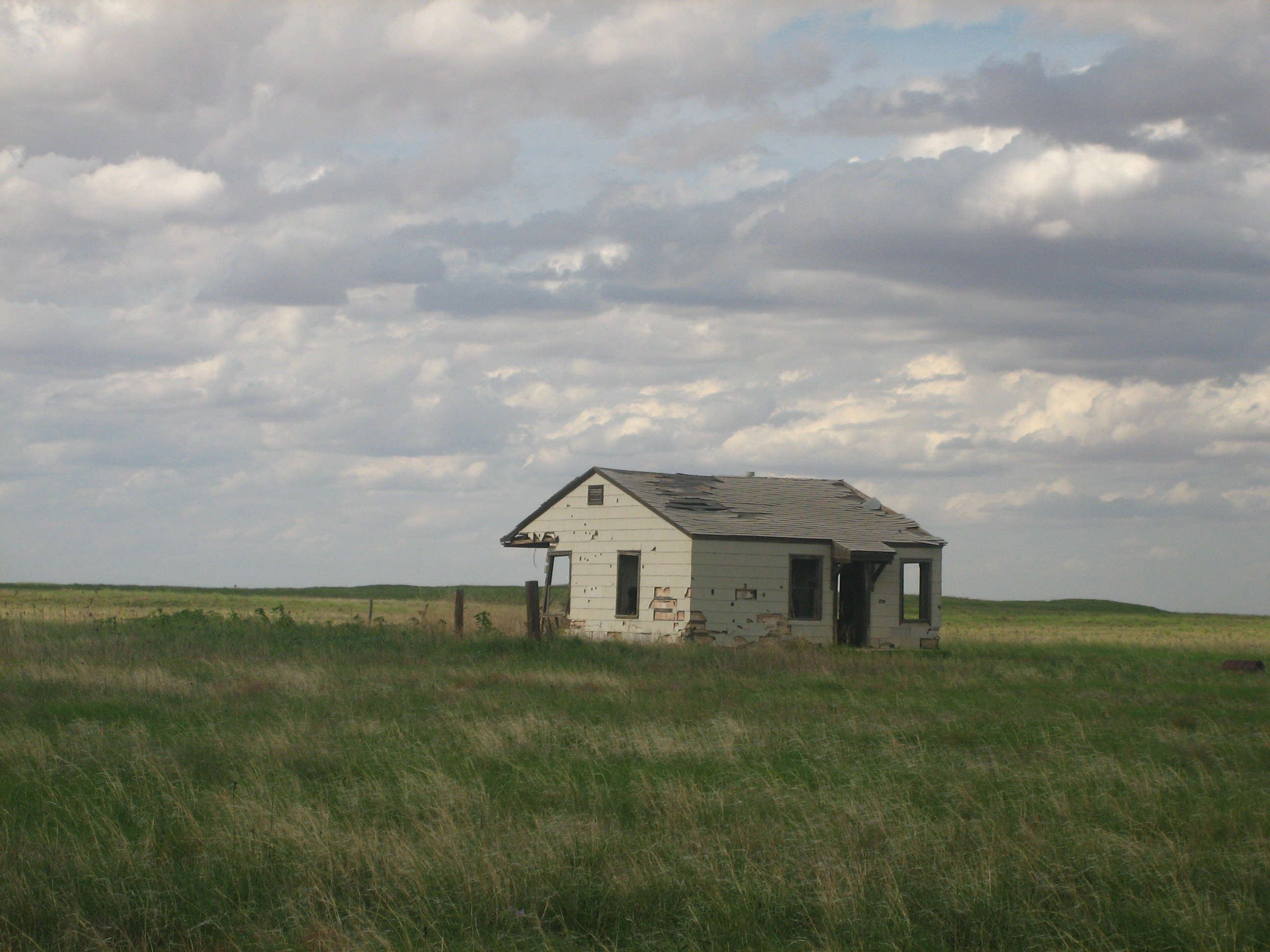 A rural scene on United States Highway 385 north of Andrews, Texas: a small, white, dilapidated house in a field